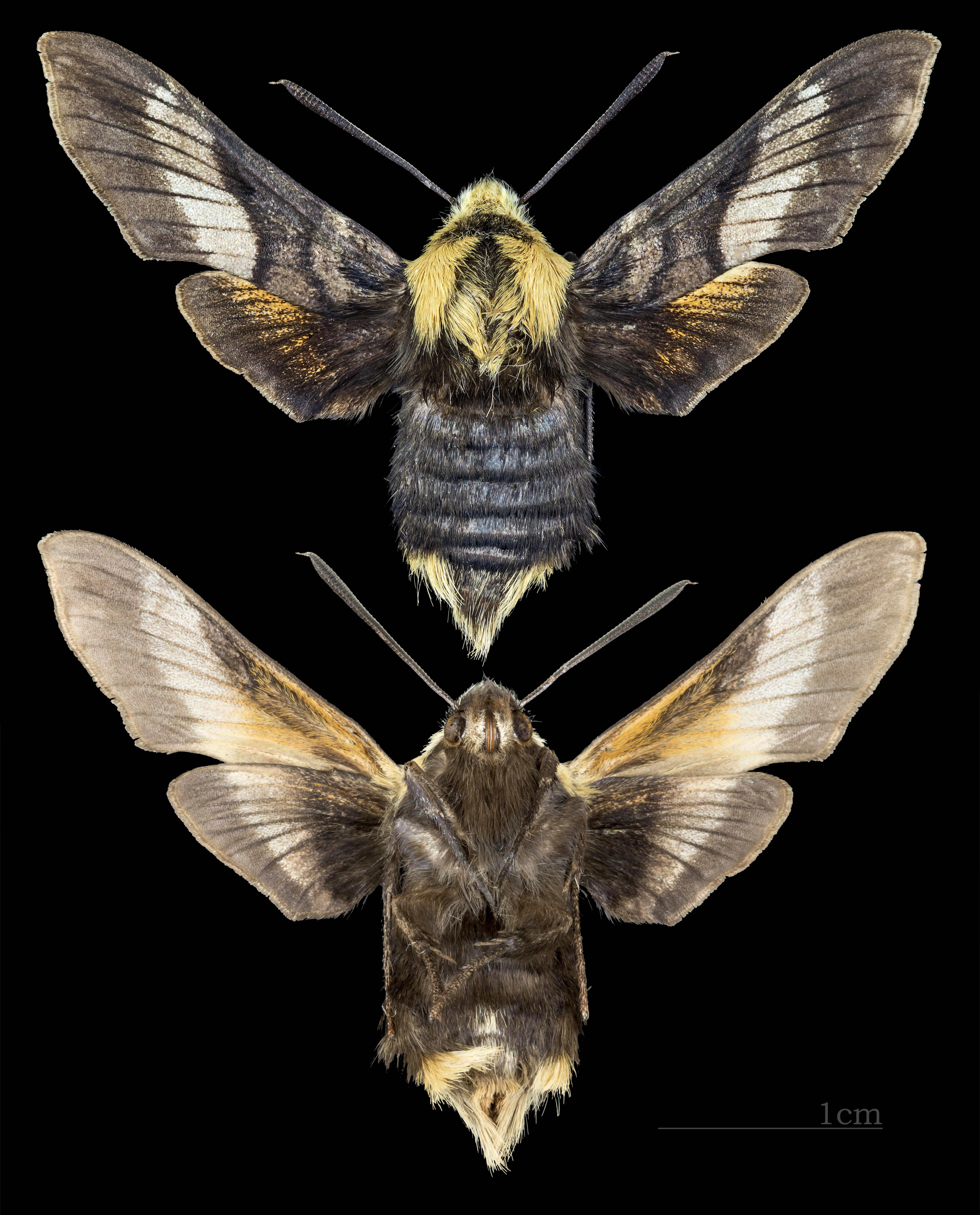 flavofasciata Sphinx - Two views of same specimen Collection of the Mathematician Laurent Schwartz